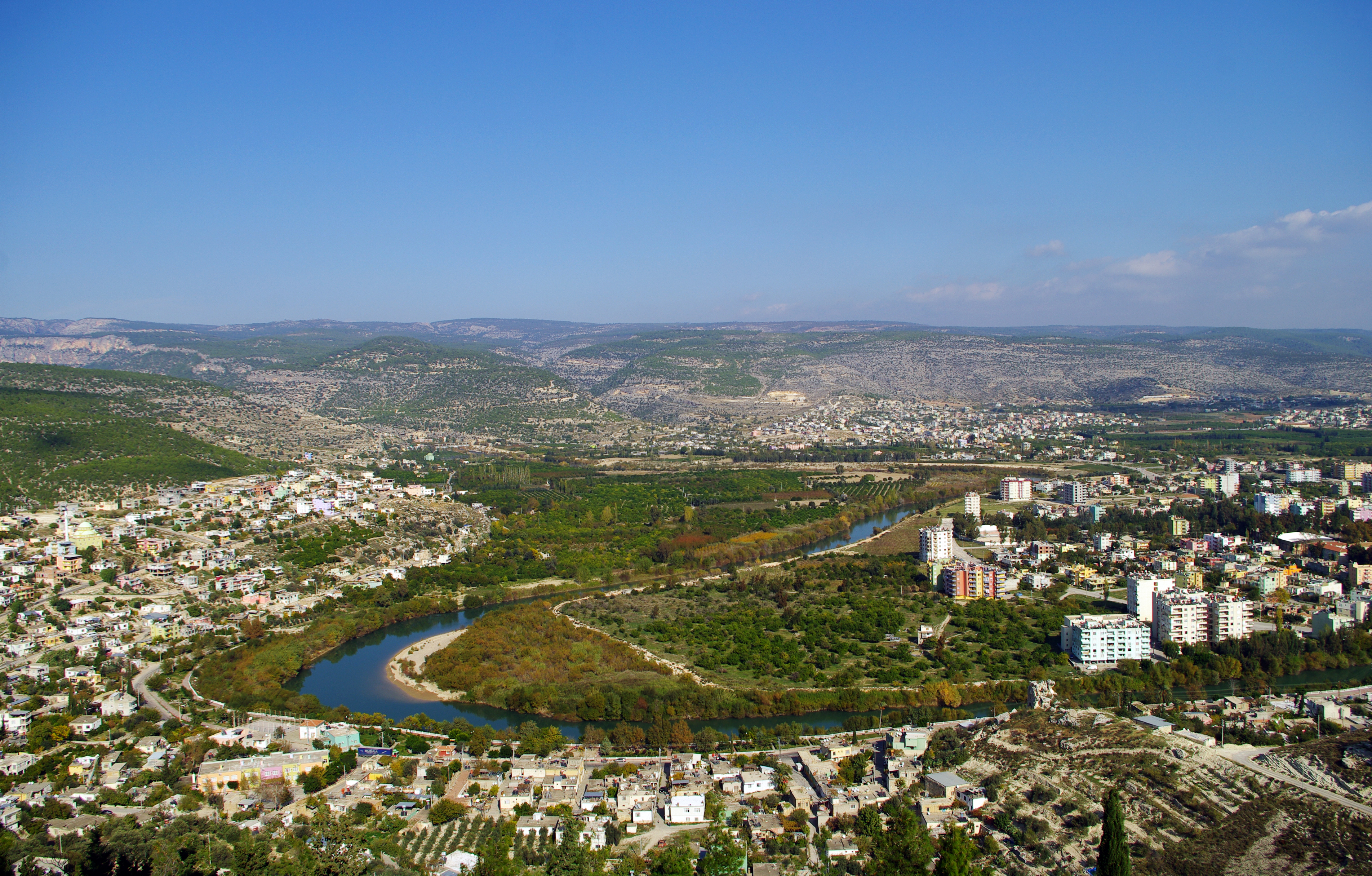 A partial view of Silifke town, capital of the district with same name.